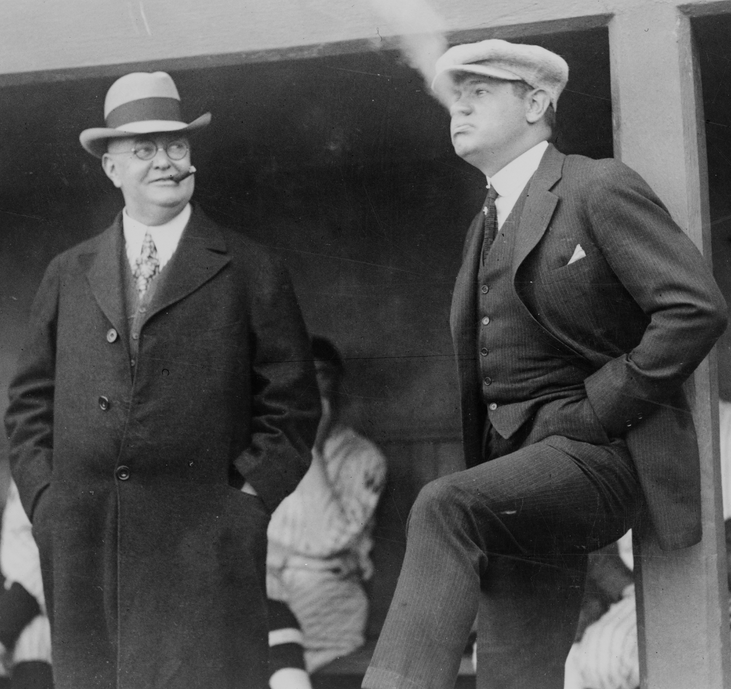 Ban Johnson (1864-1931) and Babe Ruth (1895-1948) smoking cigars before a baseball game in Washington, D.C.